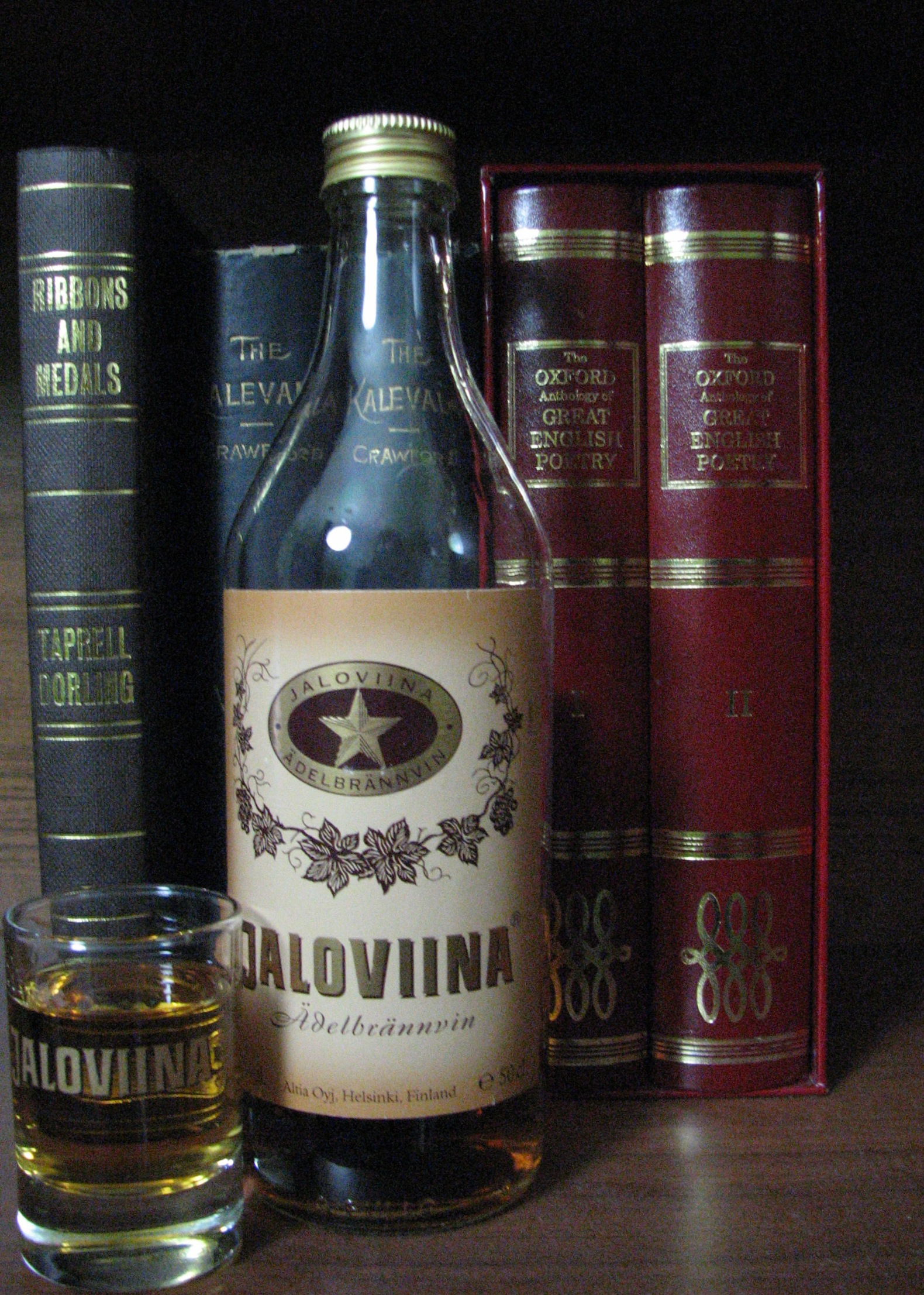 A 50cl bottle of Jaloviina in front of a 2 volume copy of Kalevala, a set of English quotations books and a book about medals and ribbons. In front and to the left side of the bottle is a shot glass containing some of the drink. Original unedited and raw, ugly as hell IMO. All very arty dontyathink?